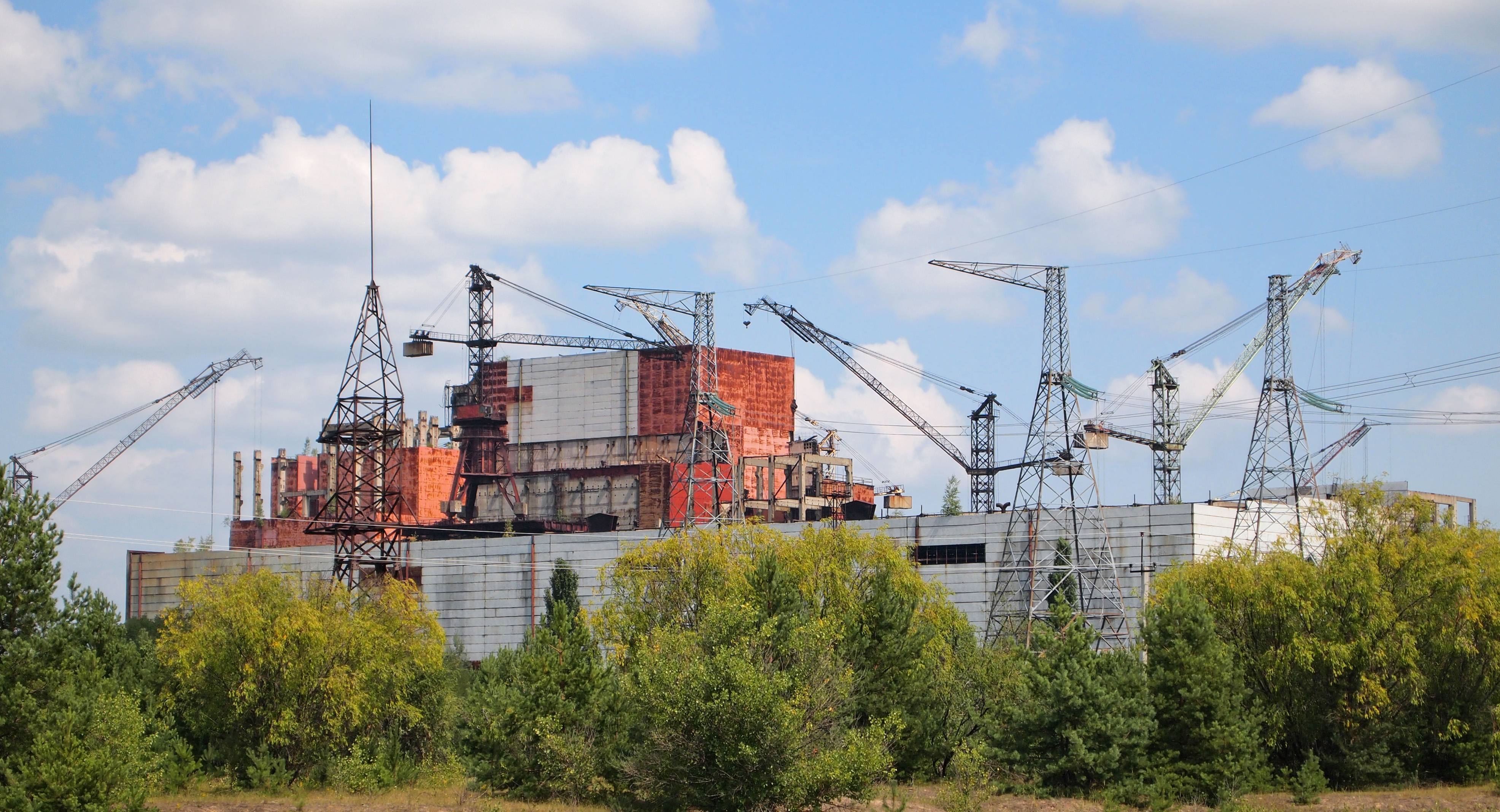 5 and 6 reactors in Chernobyl Nuclear Plant, Ukraine. This photograph was taken with a Olympus E-PL1.